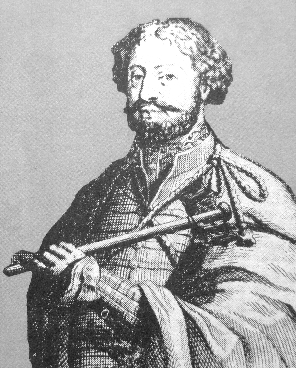 An engraving of the Georgian prince Nikoloz, son of David (Erekle I of Kakheti), reproduction of which can be found in the book of Nicolaes Witsen